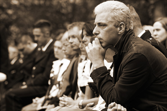 Zeno Braitenberg, a journalist from South Tyrol